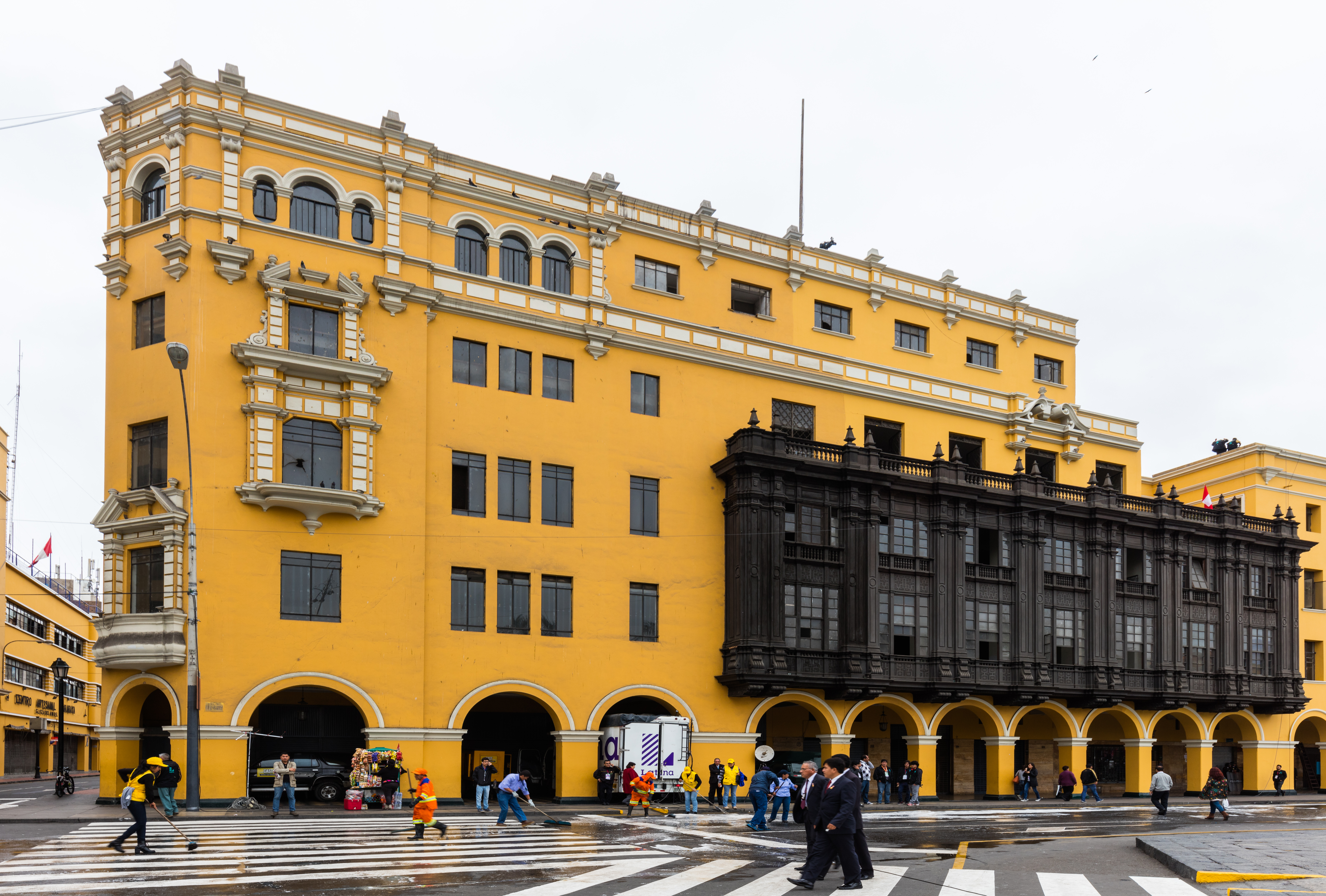 Royal Guard building, Plaza de Armas, Lima, Peru